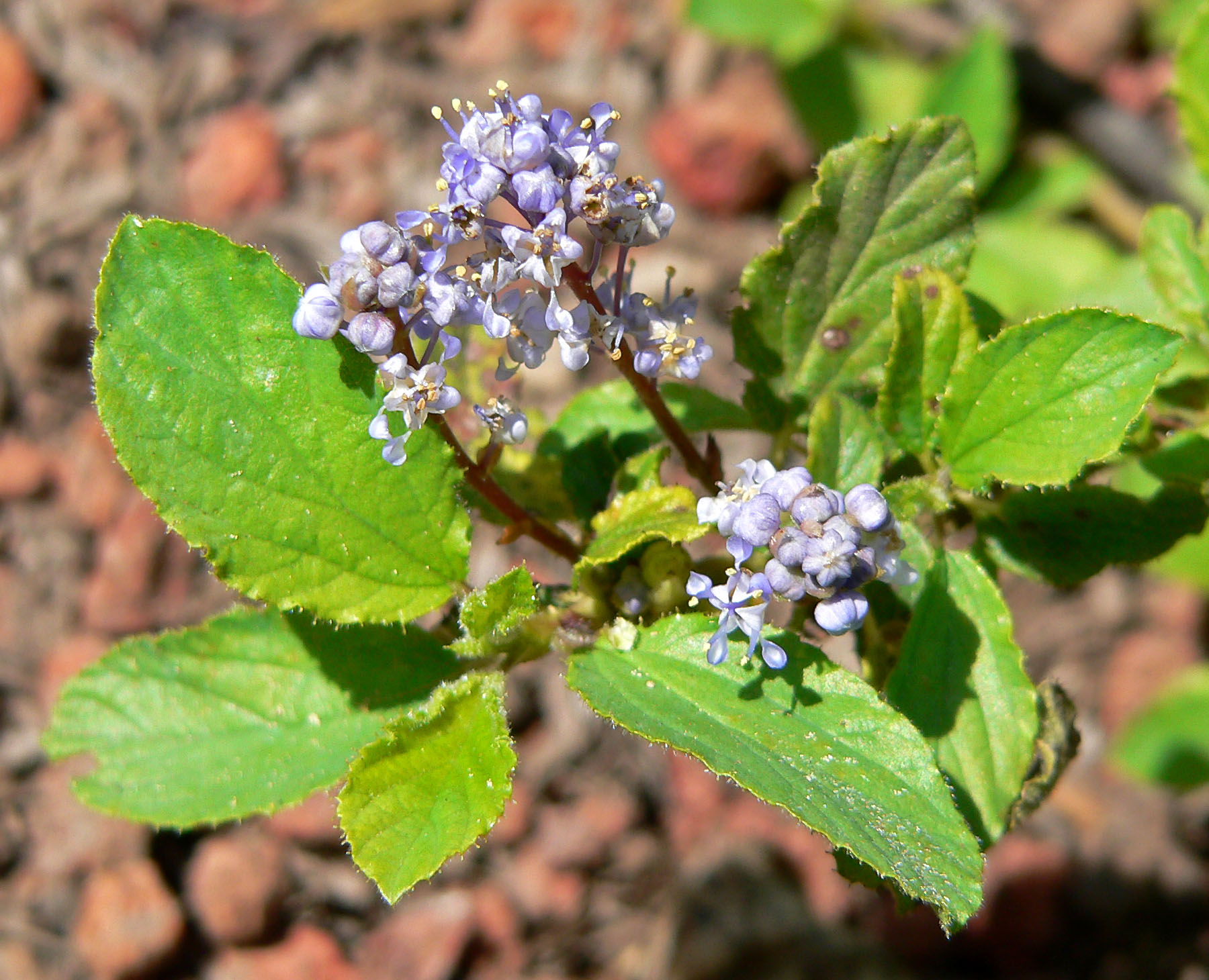 Photo of Ceanothus diversifolius at the Regional Parks Botanic Garden, Berkeley, California